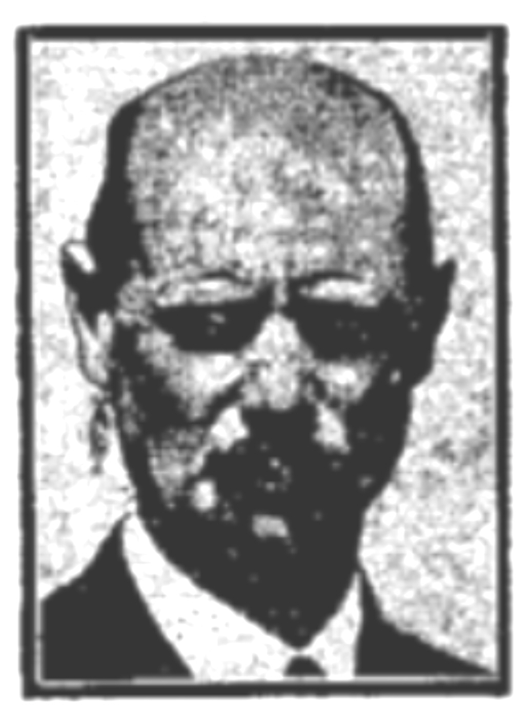 Esmond Ovey (1879-1963), British diplomat